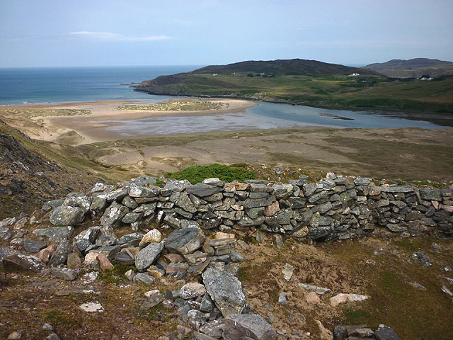 Inner wall of the broch on Druim Chuibhe. (Baile Mhargaite, also known as Lochan Druim An Duin, the Sandy Dun, or Invernaver Broch)